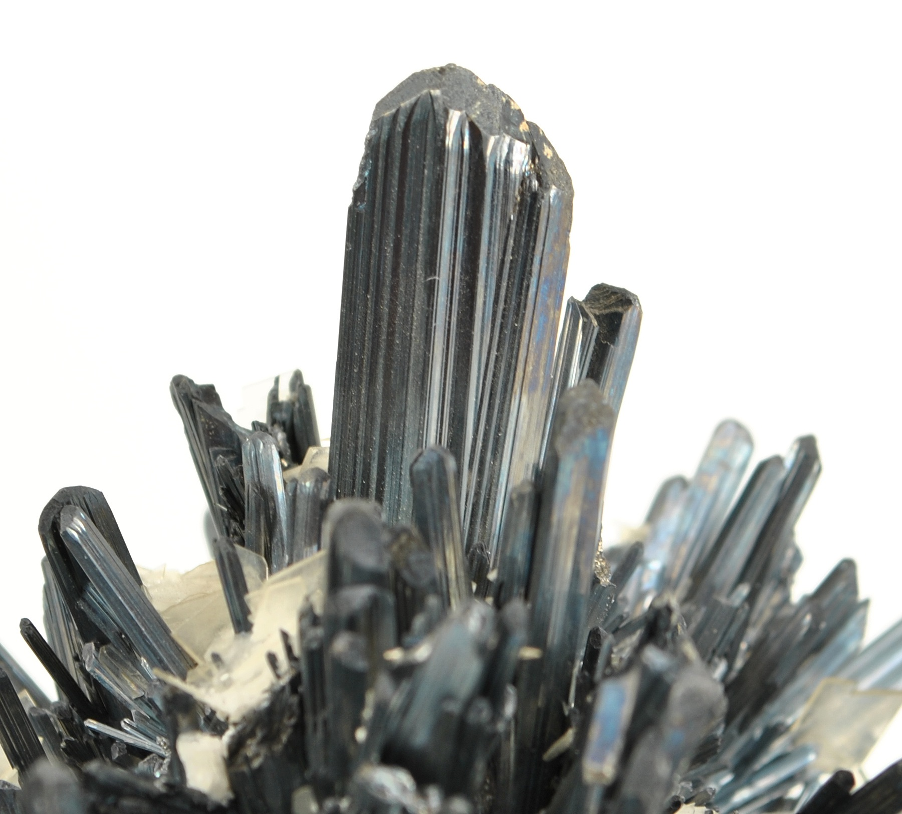 Baryte, Stibnite Locality: Manhattan District, Nye County, Nevada, USA (Locality at ) Size: small cabinet, 8.7 x 7.0 x 5.9 cm Stibnite with Barite This is old classic material, mined several decades to a hundred years ago. VERY FEW old Nevada stibnites from this famous and now defunct district have any kind of modern, world-level aesthetics to them. This one, however, can hold its own. It is nearly pristine, and has a very aesthetic arrangement of radiating crystals from a common center. The crystals reach 3 cm. From an old US collection, this came with only a yellowed label reading "Manhattan" - though whether this refers to the mine, town, or district I cannot say. Small, sharp, gem-clear barites to 4 mm abound in the crevasses between the crystals. I have also chosen not to overclean this to make it bright and shiny - it retains its original patina.